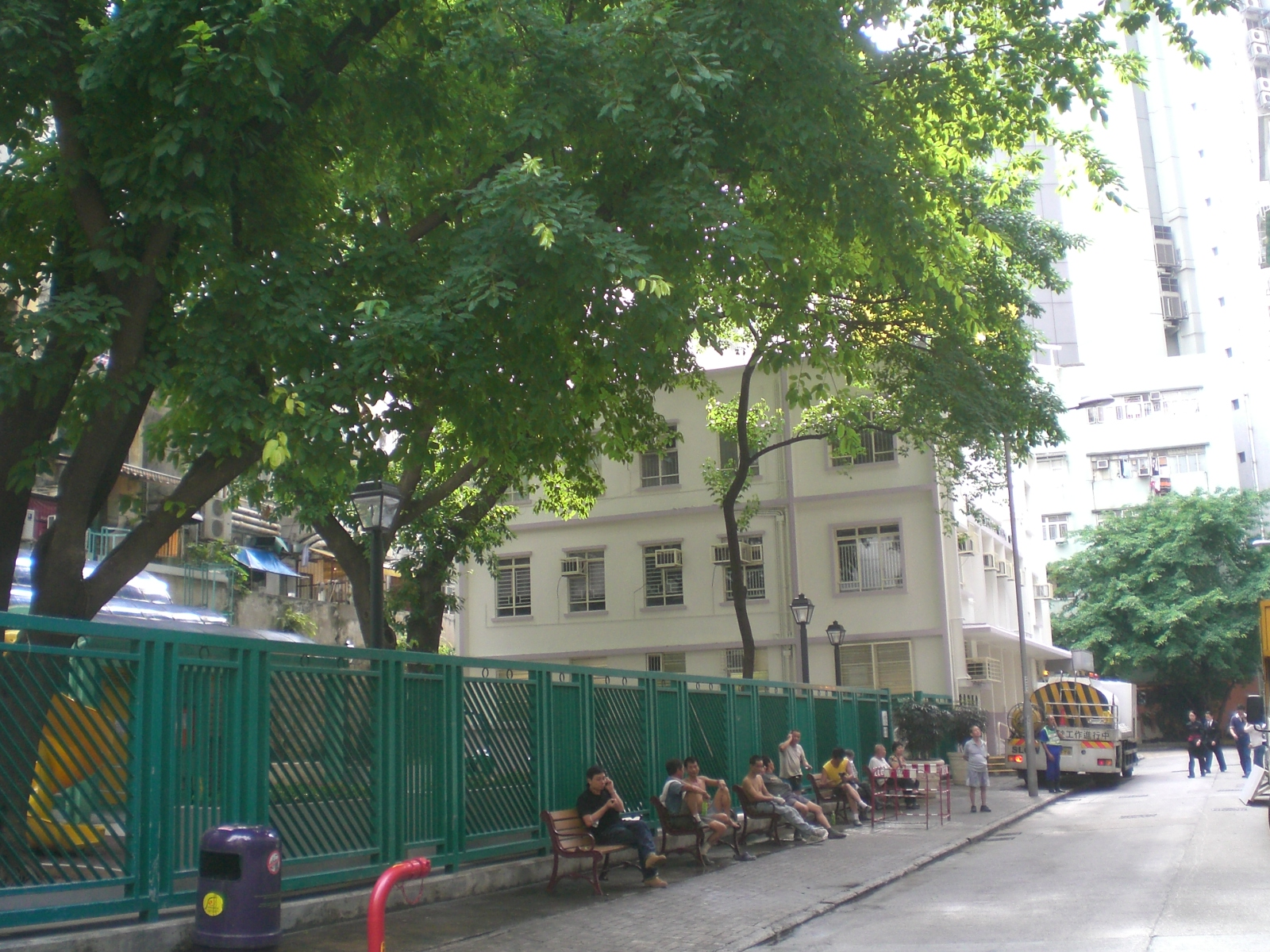 上環 九如坊 遊樂場 大葉榕 人行道